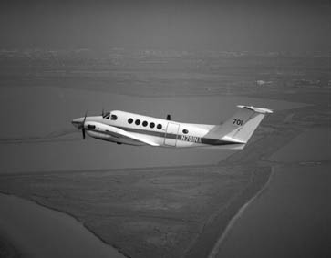 A Beech B200 in flight